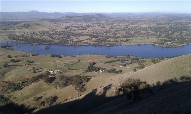 View from The Paps across Ford Inlet of Lake Eildon, Victoria